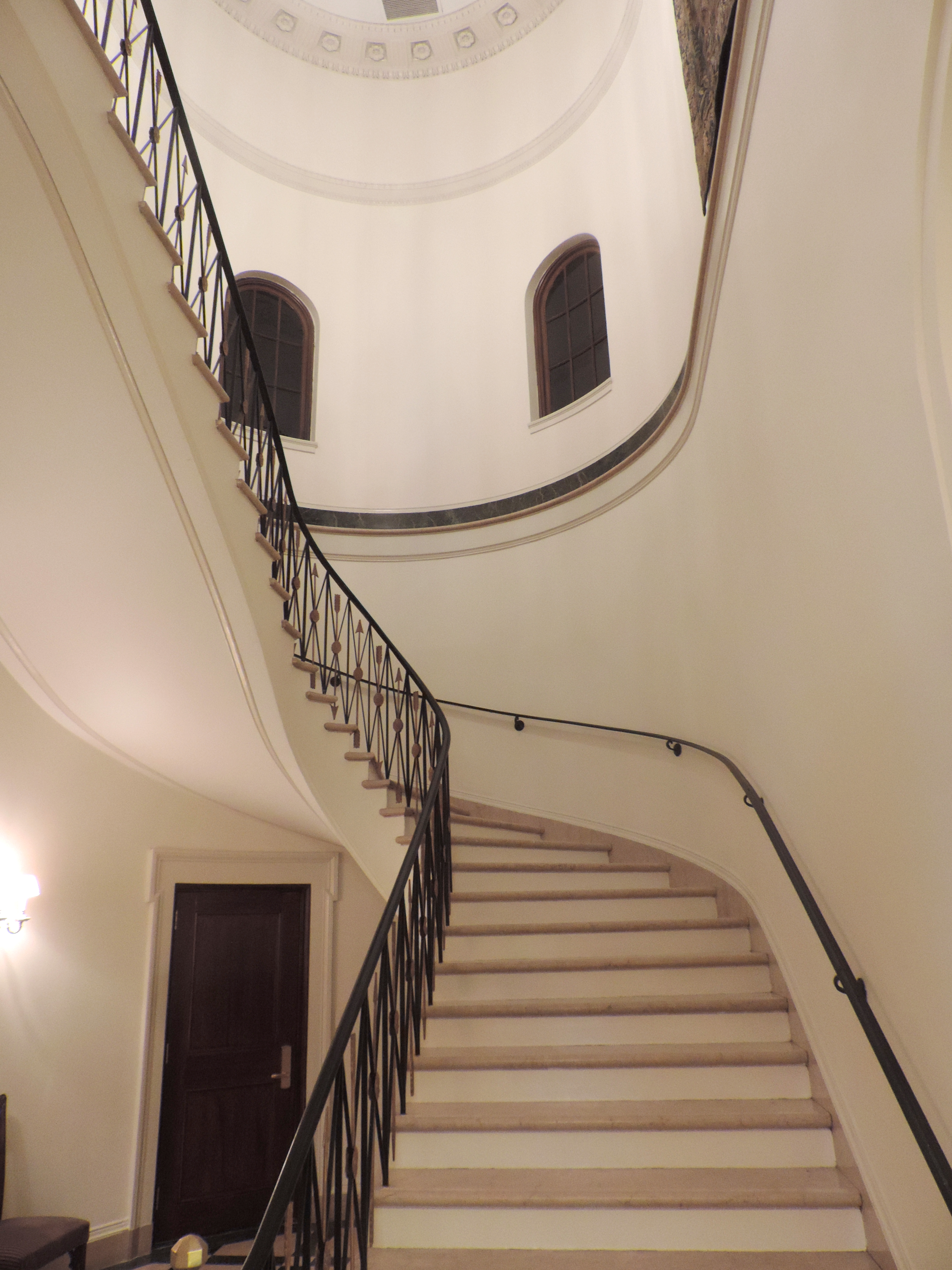 Looking east at north staircase of Council on Foreign Relations